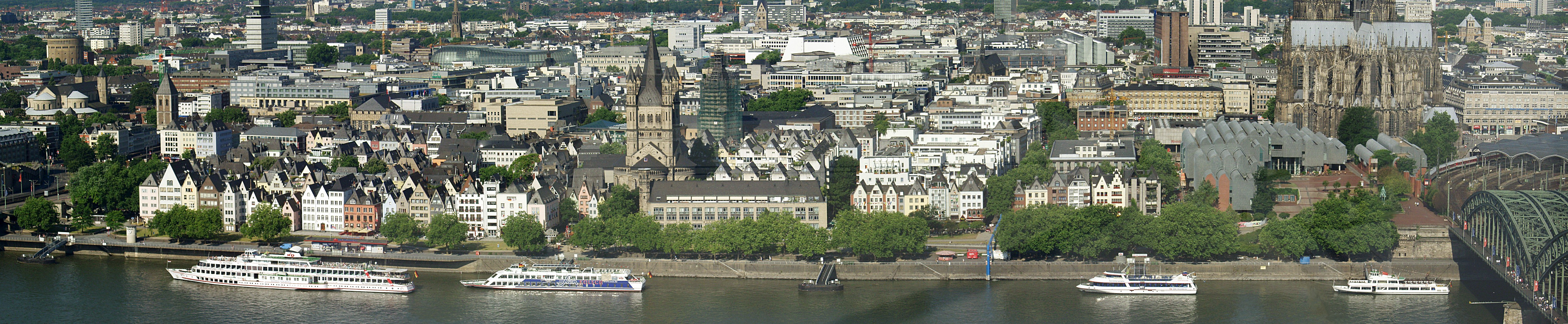 Waterside of the old town of Cologne, Germany: In the middle the church "Groß St. Martin, on the right side the philharmonics and "Museum Ludwig", outer right side the bridge "Hohenzollernbrücke" with gateway to the main station